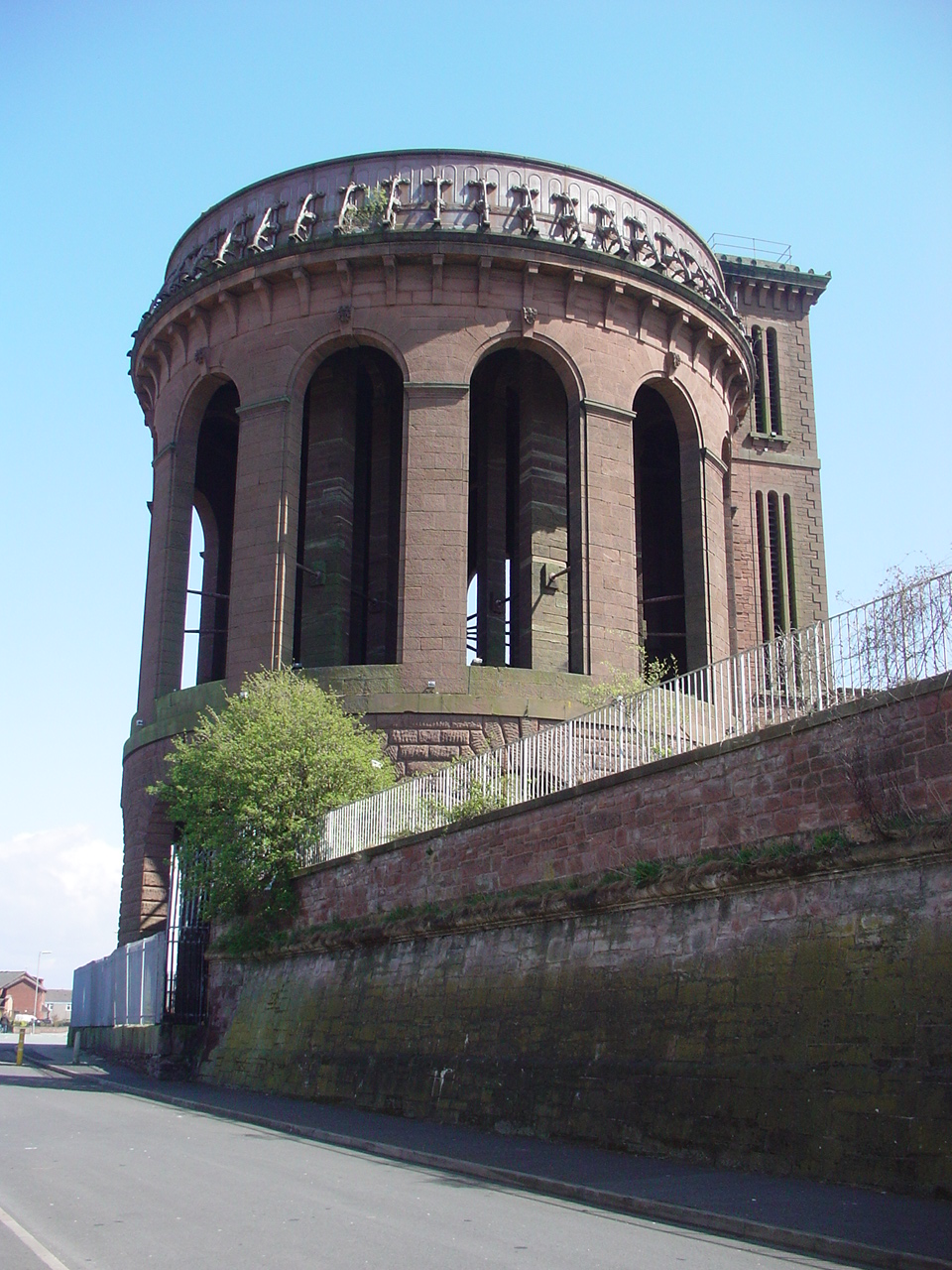 Photo taken at Everton water works, Liverpool, England.